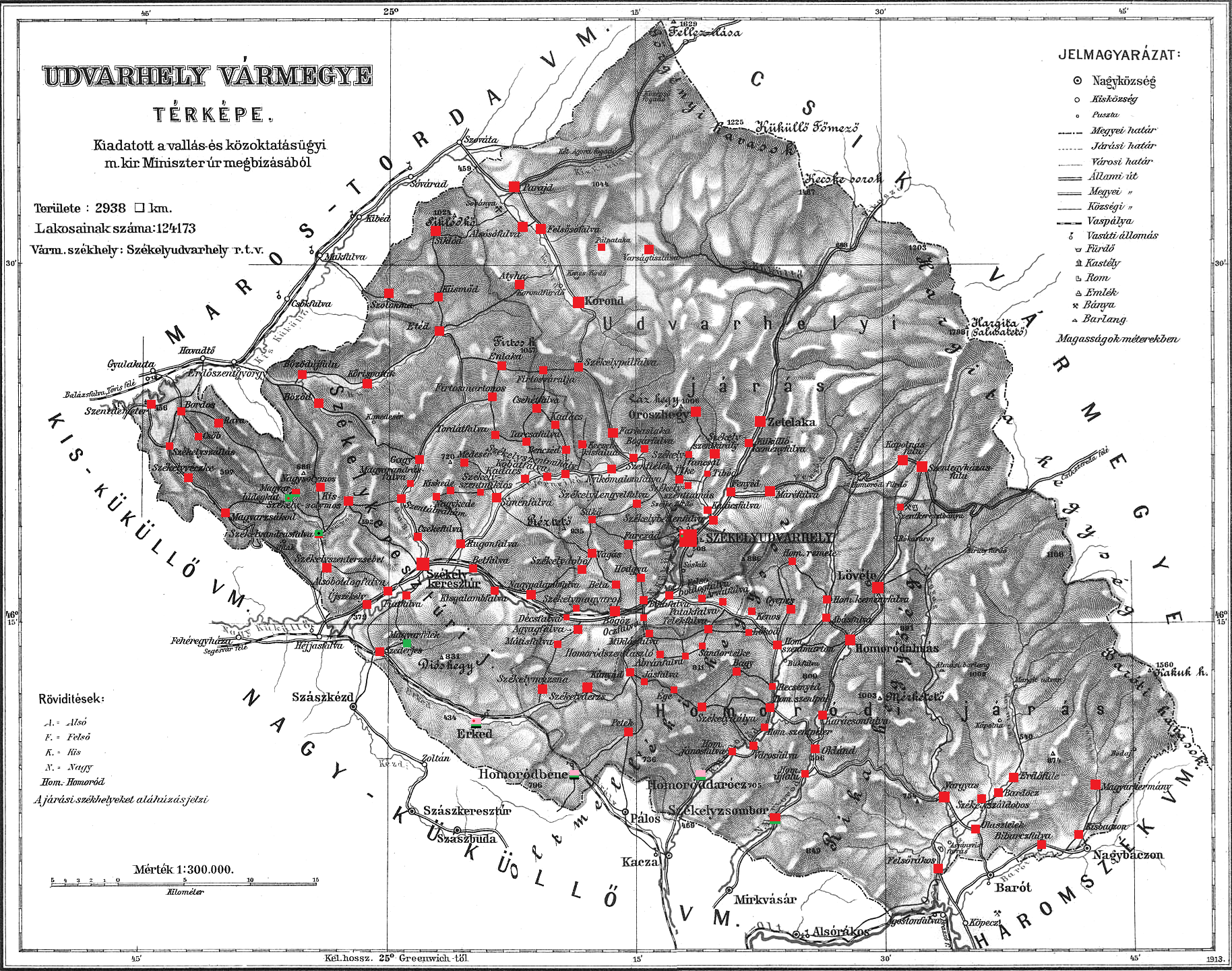 Ethnic map of the county (with data of the 1910 census). Key: red - Hungarians; pink - Germans; dark green - Romanians; black - Roma. Coloured dots in plain rectangles imply the presence of smaller minority populations (generally more than 100 people or 10%). Multicoloured rectangles imply cities and villages with multi-ethnic populations with the order of the stripes following the ethnic composition of the settlement.